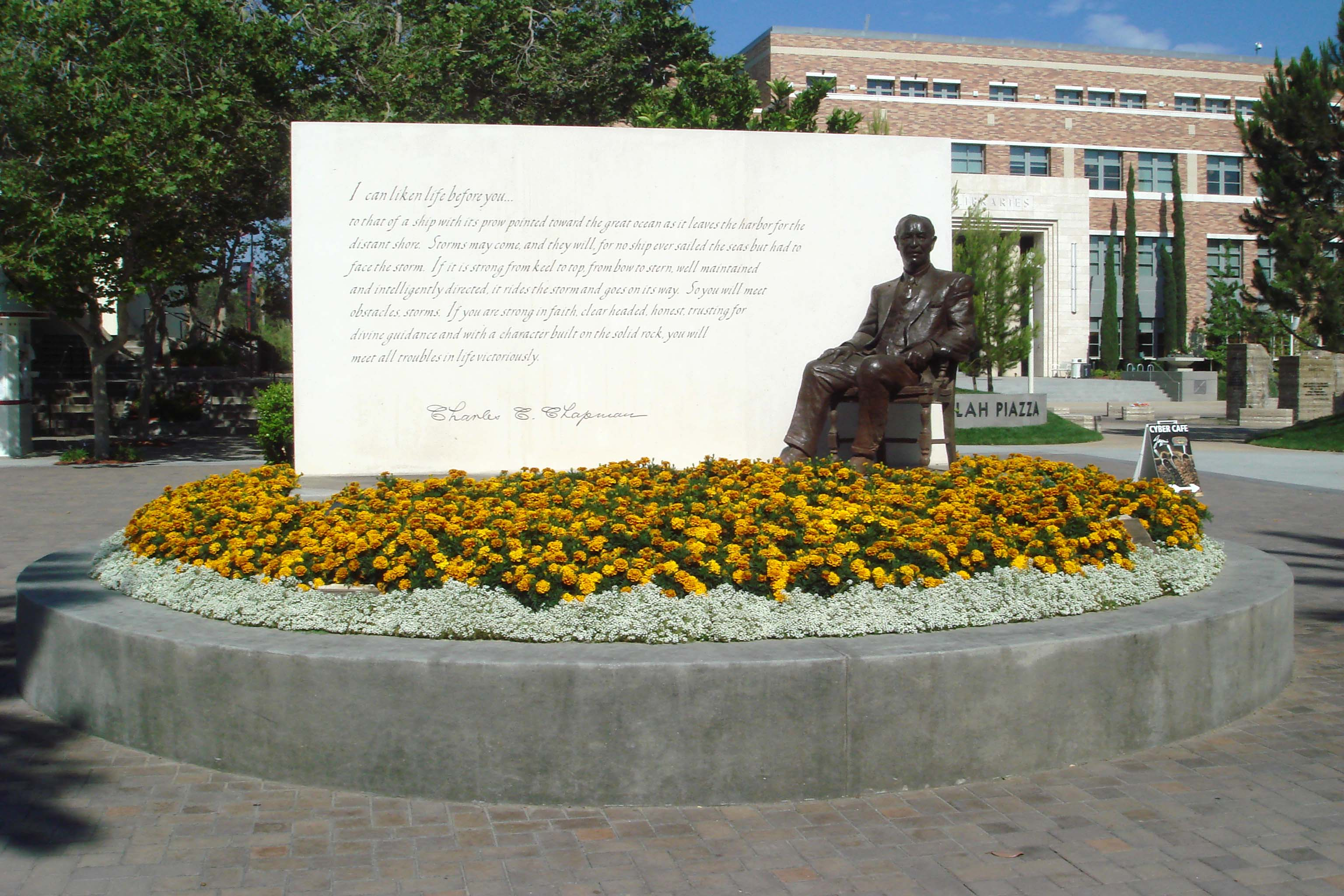 Memorial to Charles C. Chapman, founder of Chapman University (Orange, California). The memorial statue is located in Chapman Plaza.